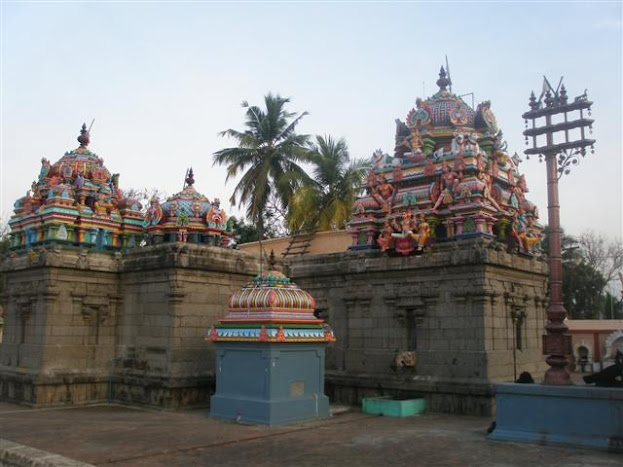 sivaprakasa swamigal jeeva samadhi temple